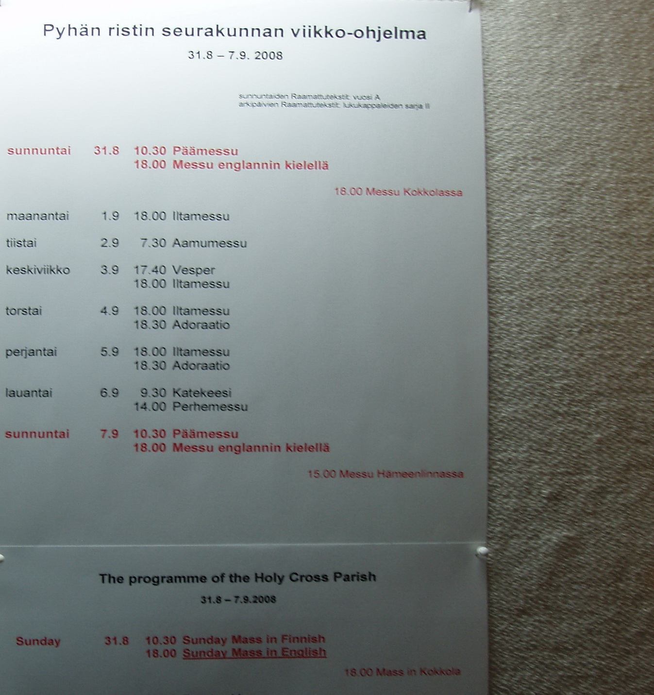 Masses in Holy Cross Roman Catholic Church, Tampere, Finland